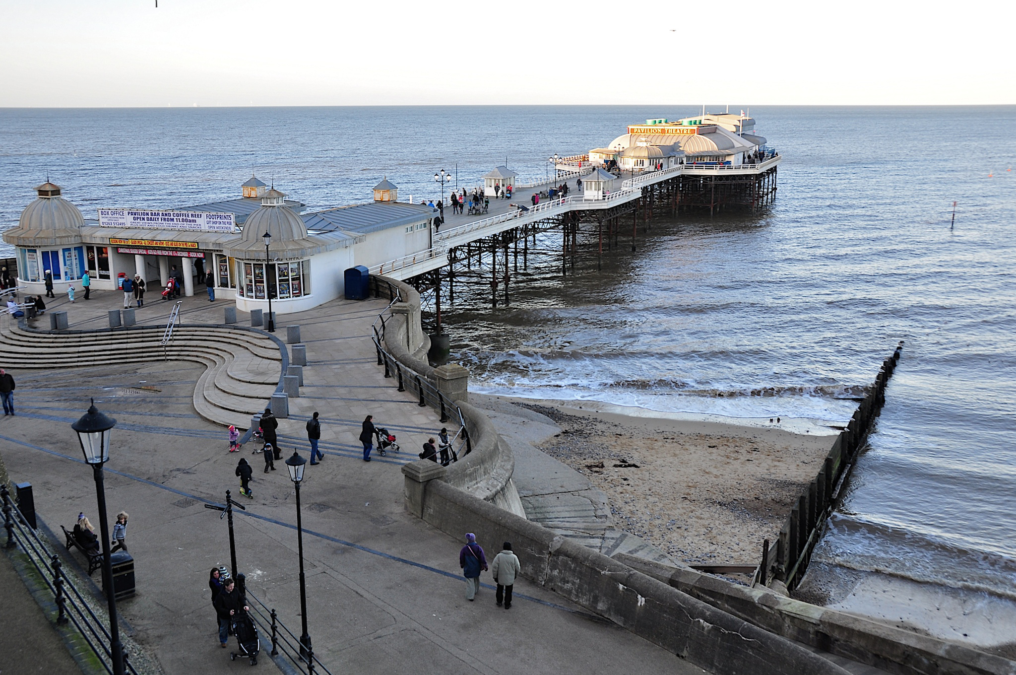 Cromer Pier, Cromer, Norfolk, England.